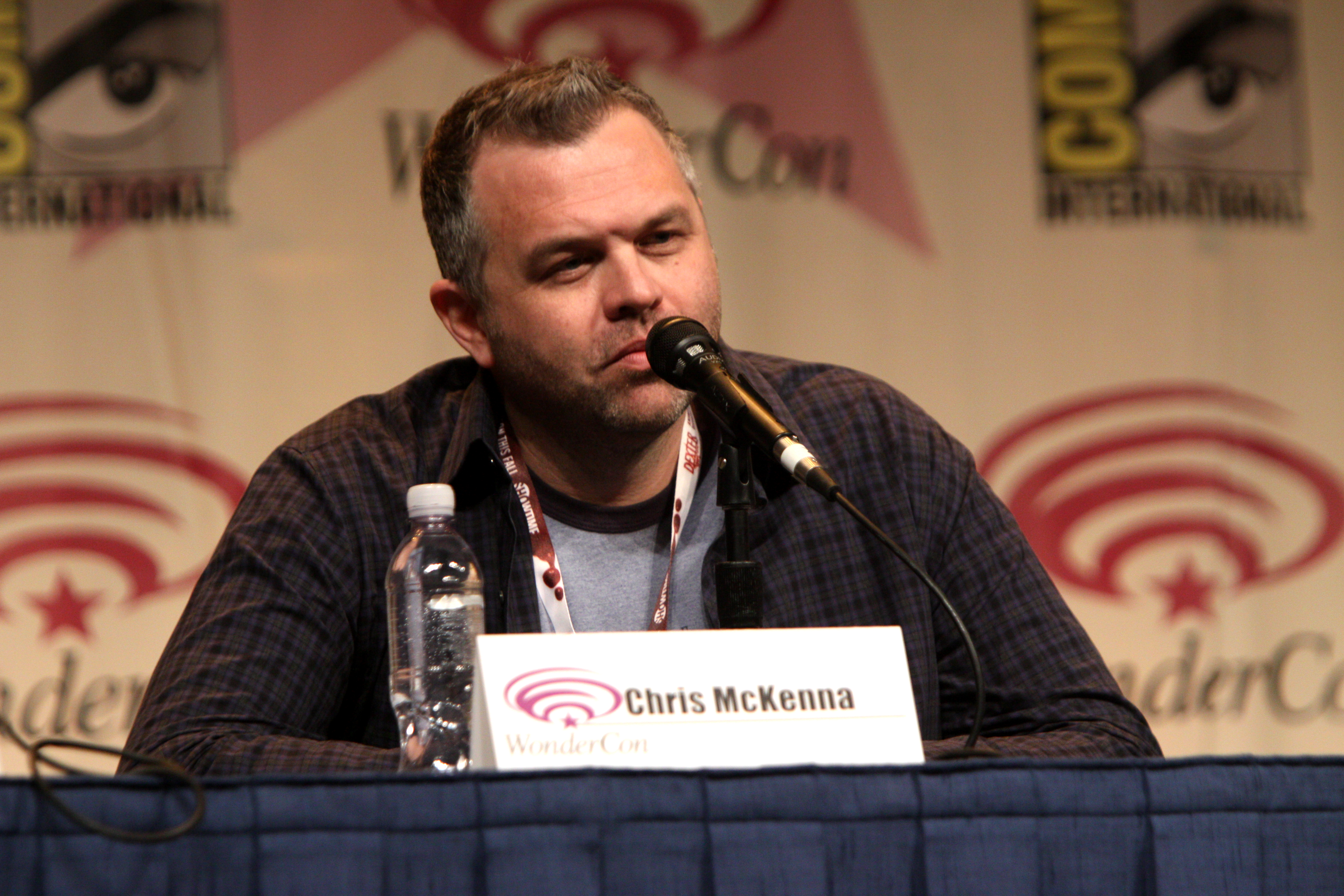 Chris McKenna speaking on a Community panel at 2012 WonderCon in Anaheim, California.